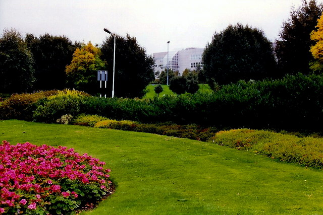 University College Dublin campus grounds Seen in the centre background is a microbiology building.